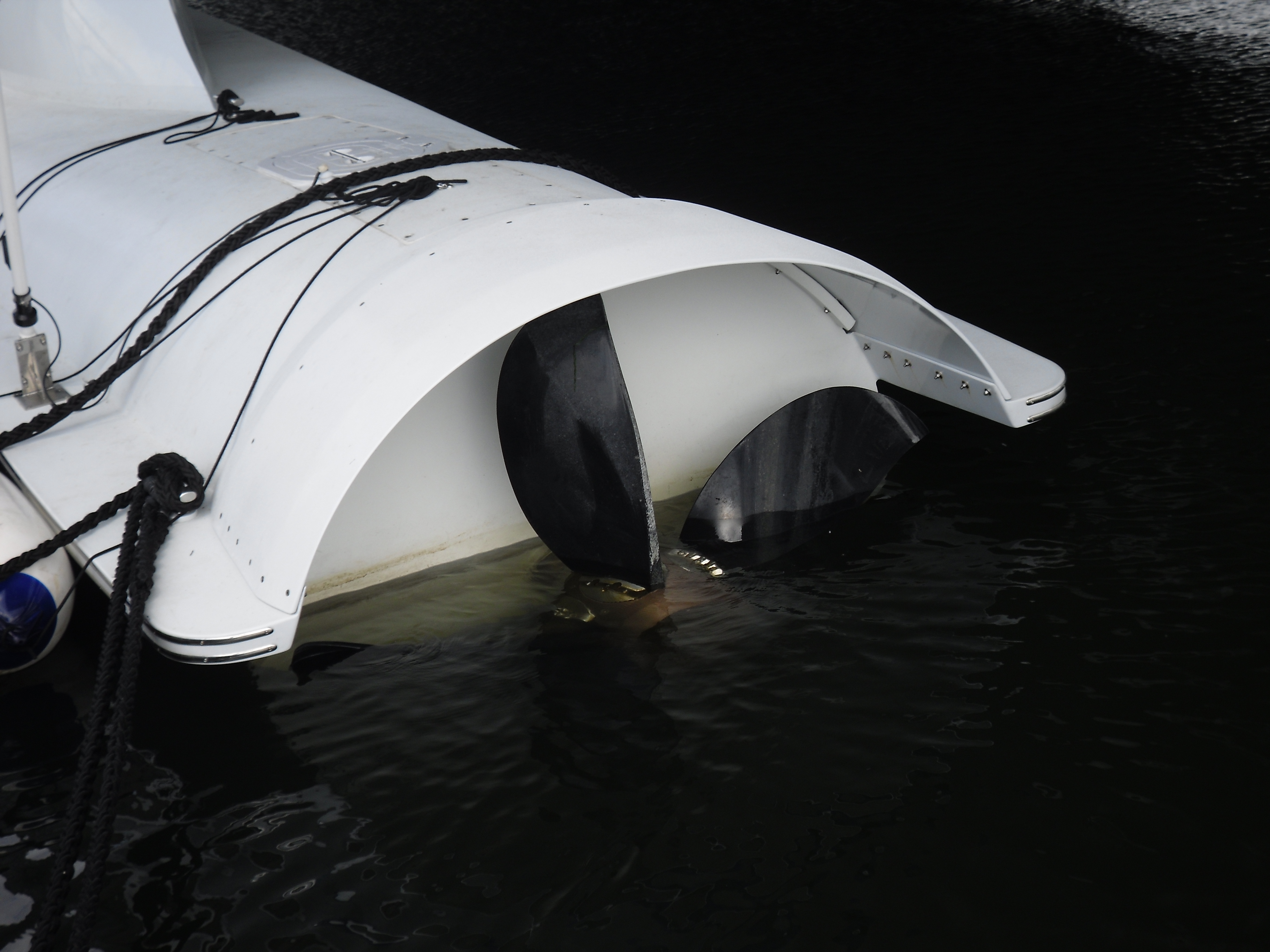 Propeller of Solar boat PlanetSolar (Surface piercing propeller)